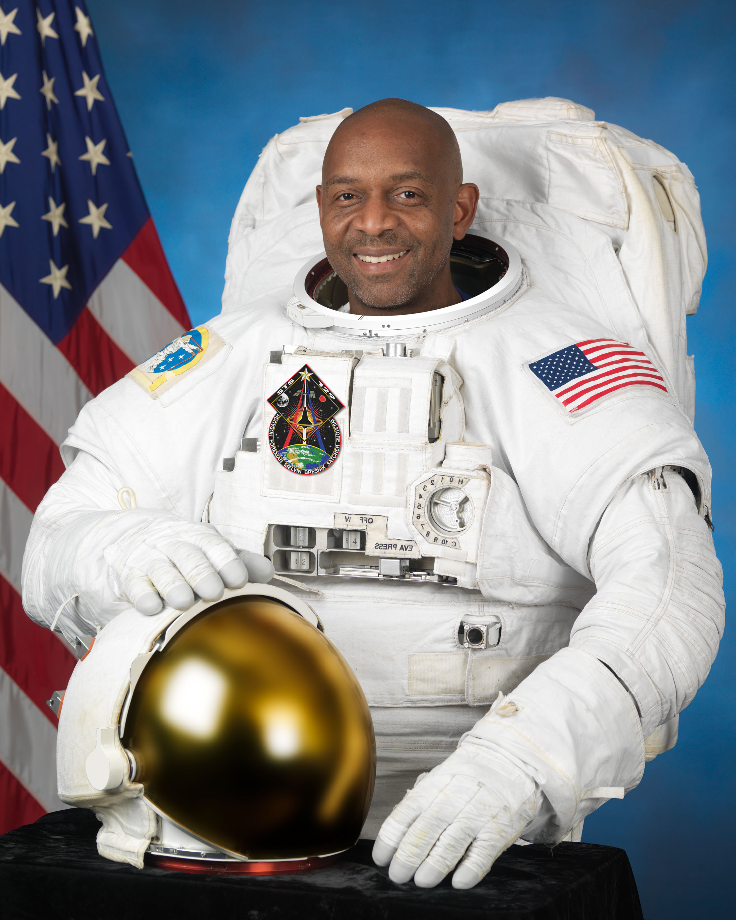 Astronaut Robert L. Satcher Jr., mission specialist